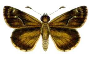 Anisynta dominula Phylum ARTHROPODA Class HEXAPODA Order Lepidoptera Family Hesperiidae